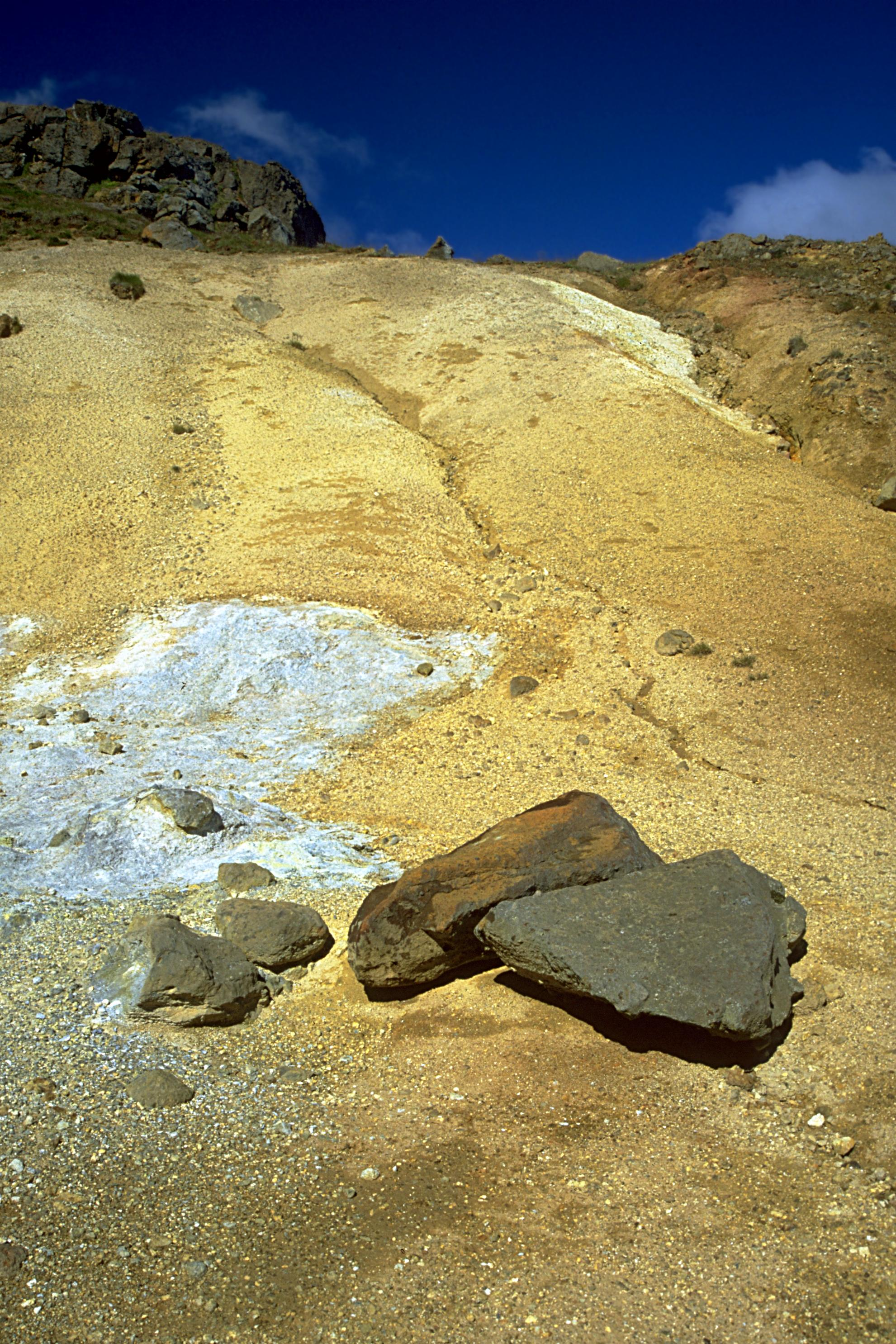 Krýsuvík: Slope Near Hot Springs, Iceland Photo was taken using the following technique: Film: Fuji Velvia Lens: 2.0/20 Filter: Polarisation Body: Minolta Dynax 7 Support: Manfrotto 190B Image with Information in English Bild mit Informationen auf Deutsch